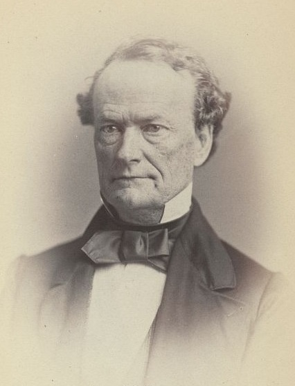 Ambrose S. Murray, New York Congressman